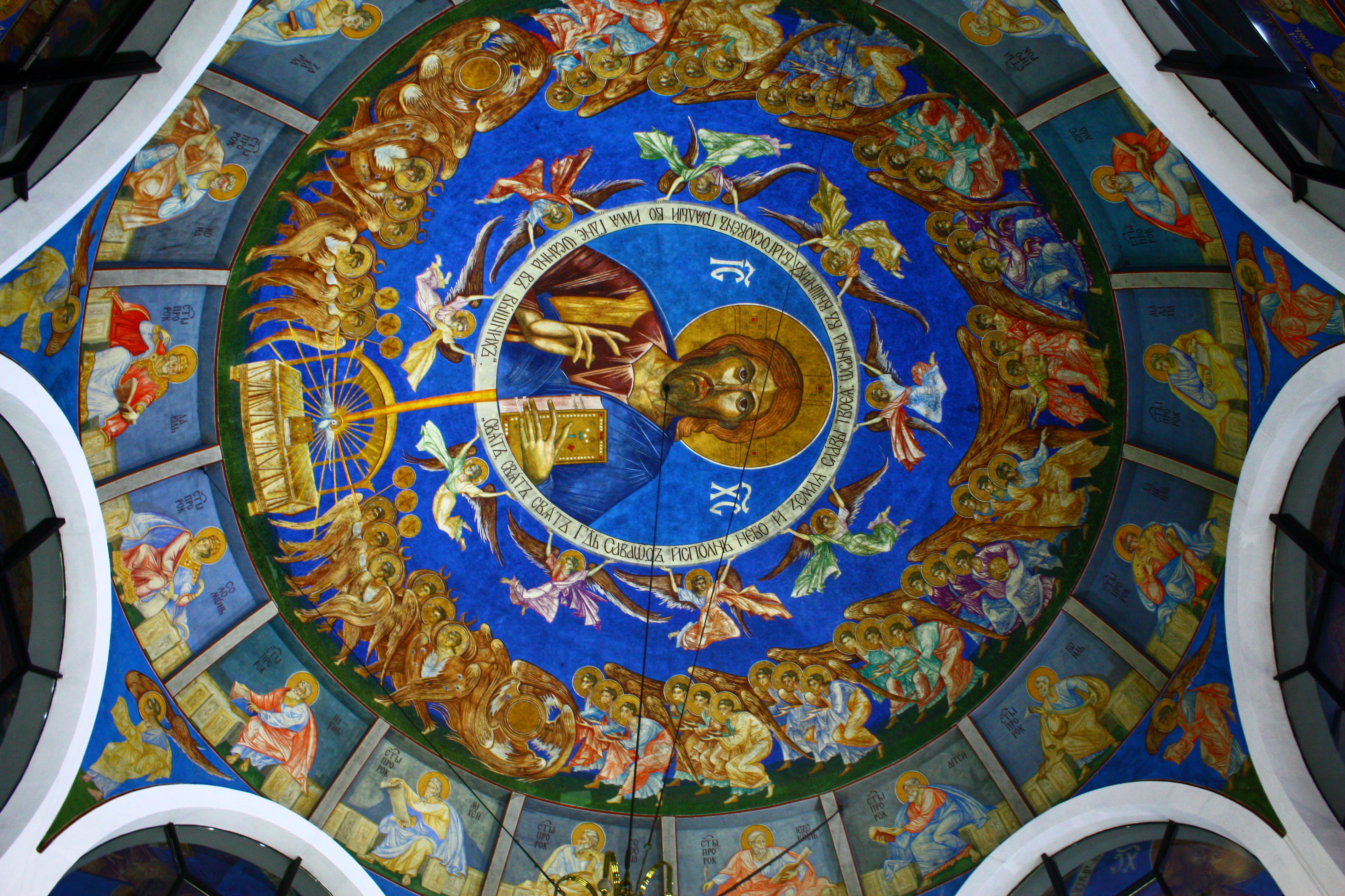 St. Clement of Ohrid Church in Skopje, Macedonia This image is uploaded as part of the picture contest Wiki Loves Cultural Heritage in Macedonia 2013. English | македонски | +/−